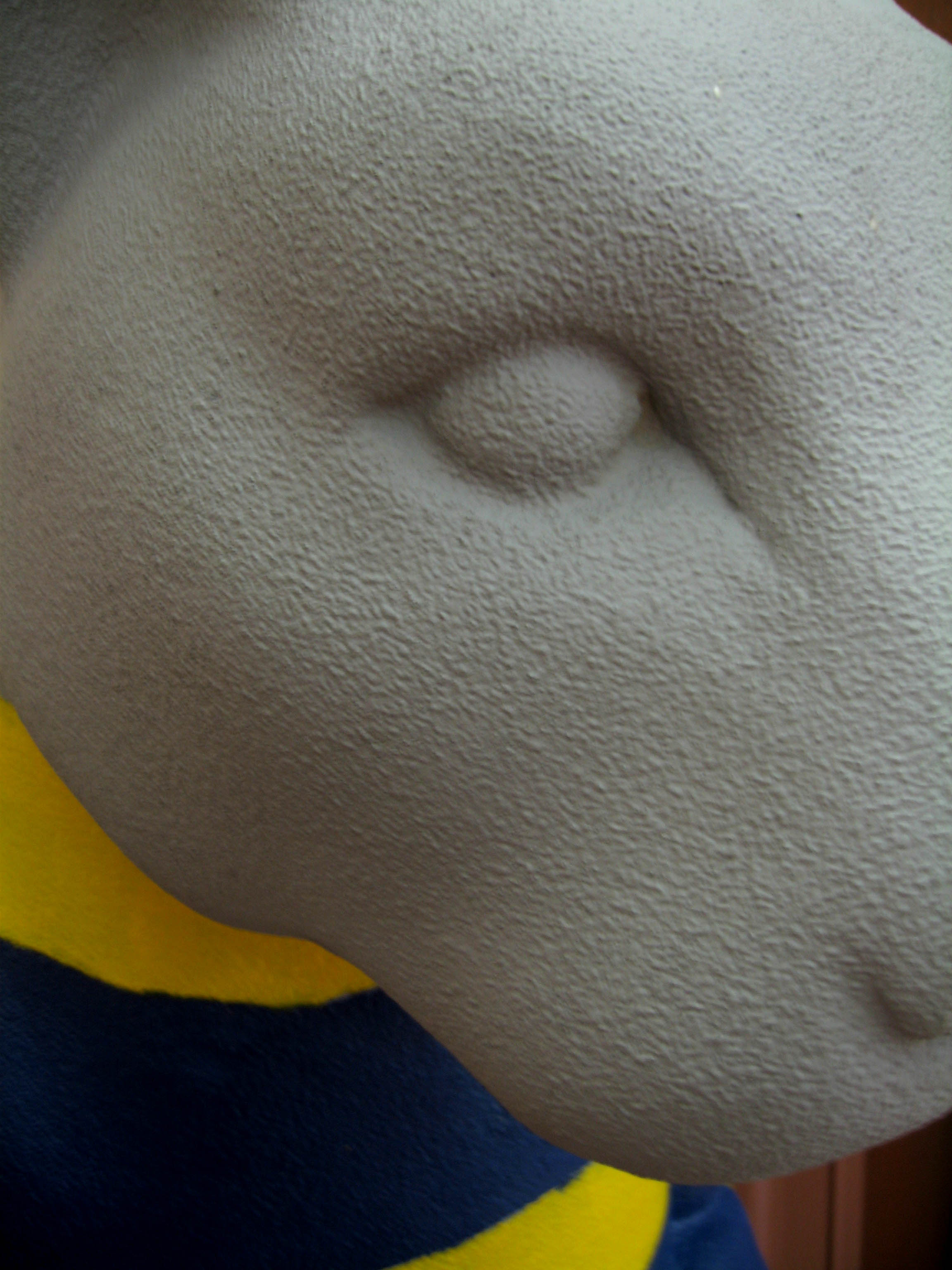 ....is this kinda creepy? One of the panthers that Pitt students are decorating. This one's in the student union.